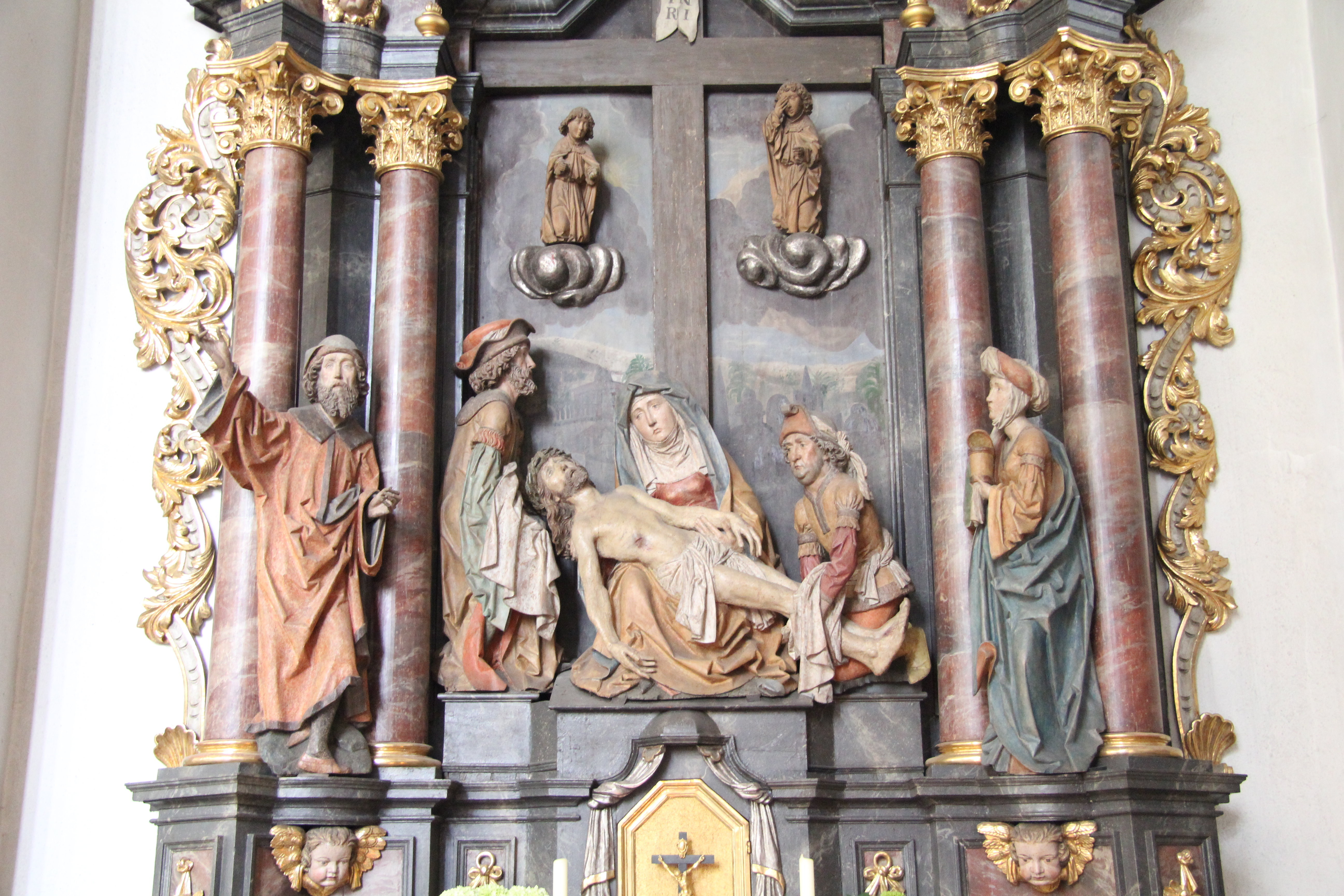 Pietà statue group by German sculptor Tilman Riemenschneider in the pilgimage chapel of Hessenthal, Bavaria, Germany